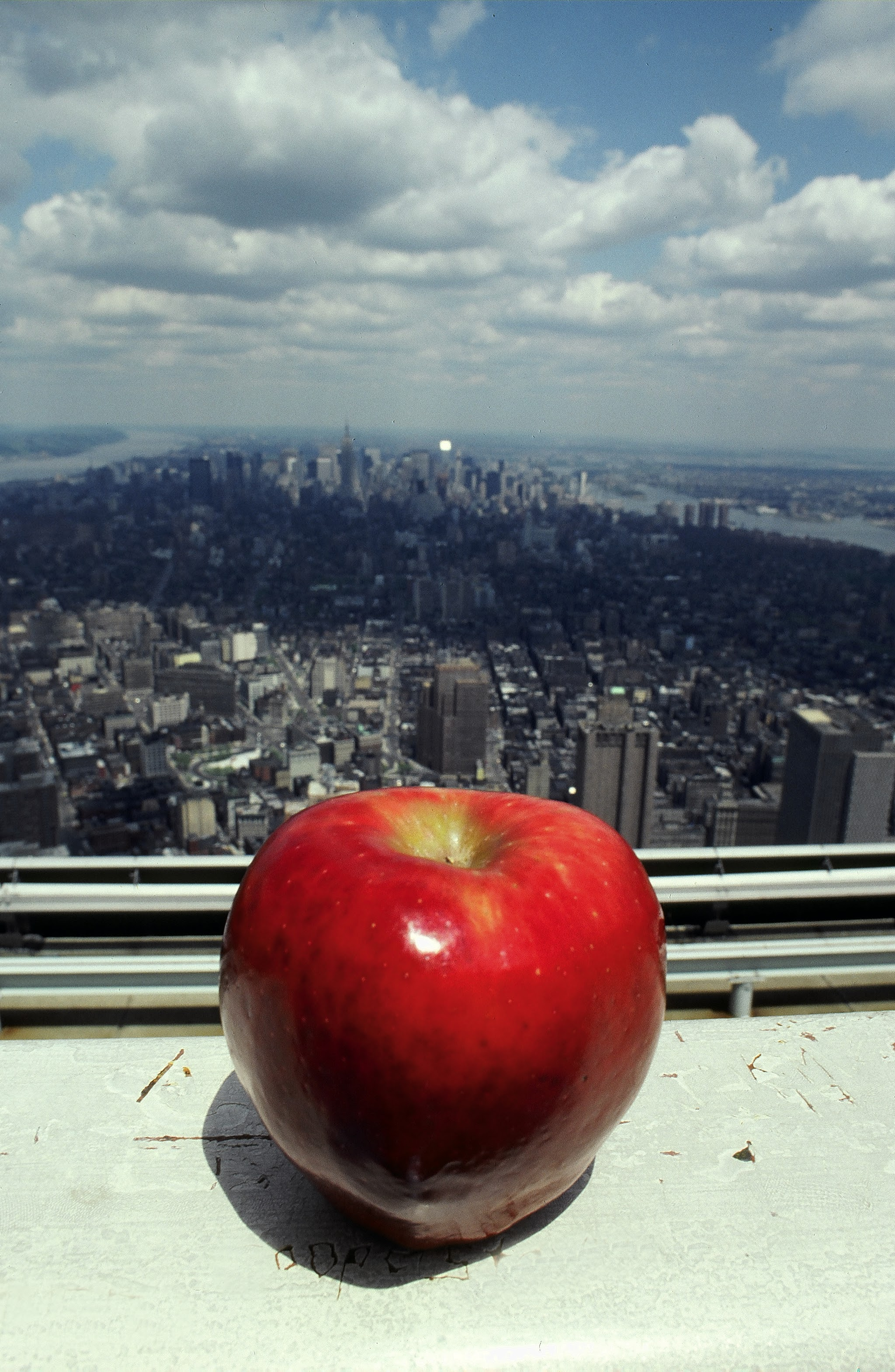 The Big Apple, 1980 (Manhattan viewed from atop the World Trade Center)